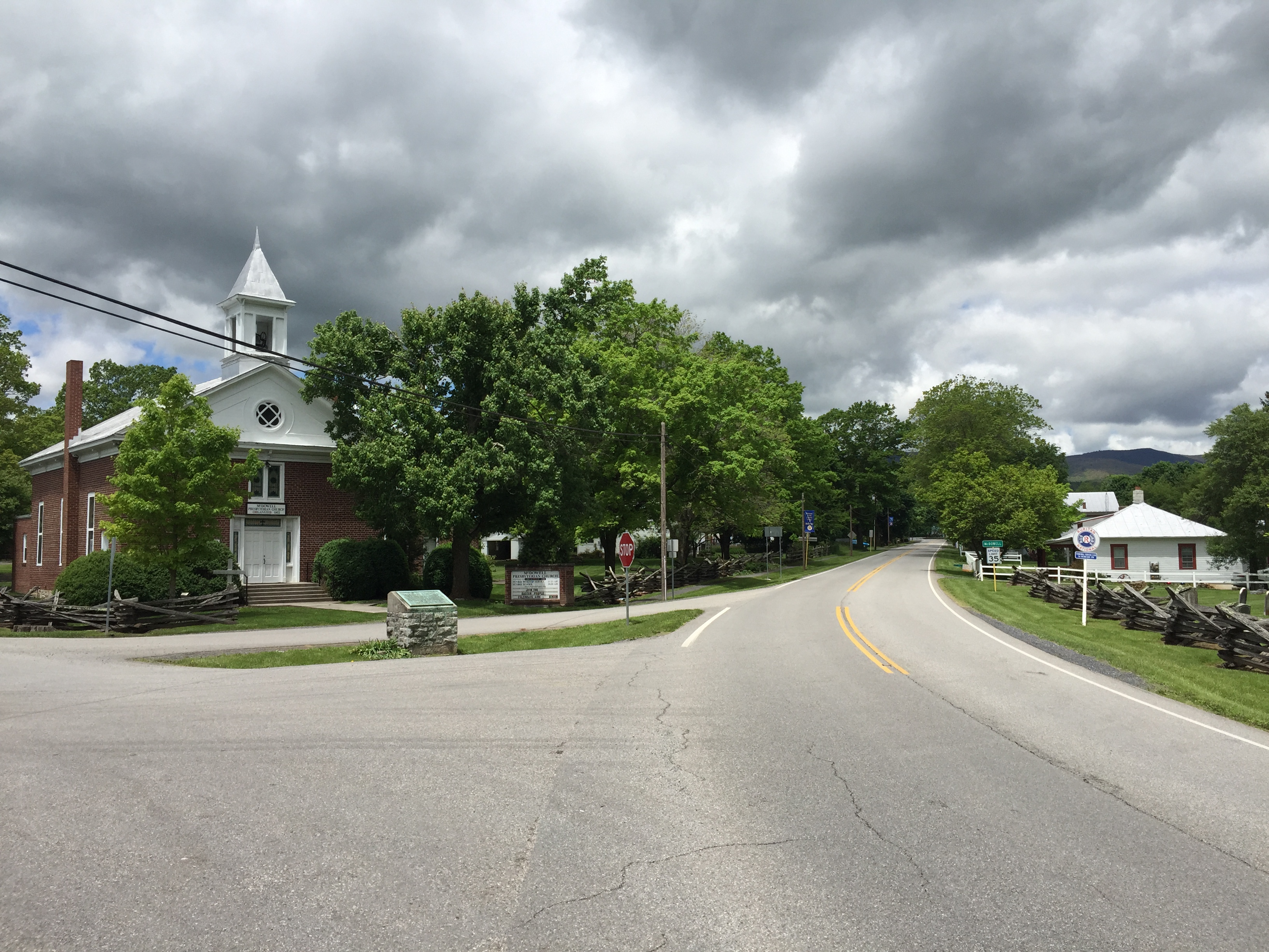 View west along the Highland Turnpike (U.S. Route 250) at Bullpasture River Road (Virginia State Secondary Route 678) in McDowell, Highland County, Virginia